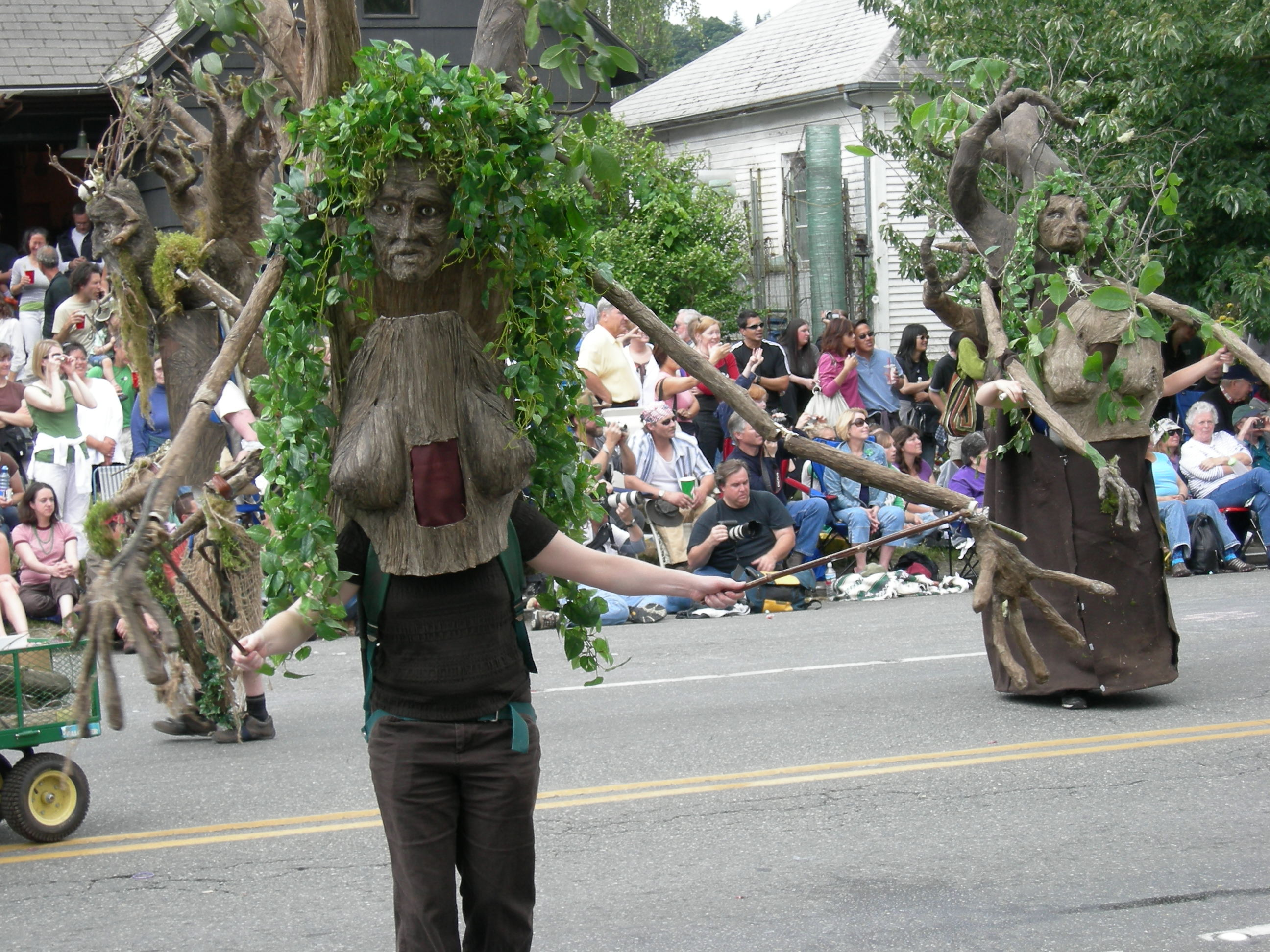 People in what were self-identified as ent costumes, but clearly also owe a lot to the related "green man" tradition, 2007 Summer Solstice Parade and Pageant, Fremont Fair, Seattle, Washington.